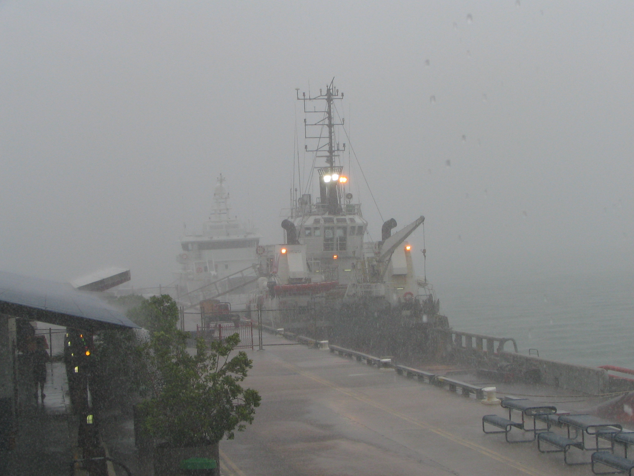 A heavy lunchtime Wet Season shower hits Stokes Hill Wharf.